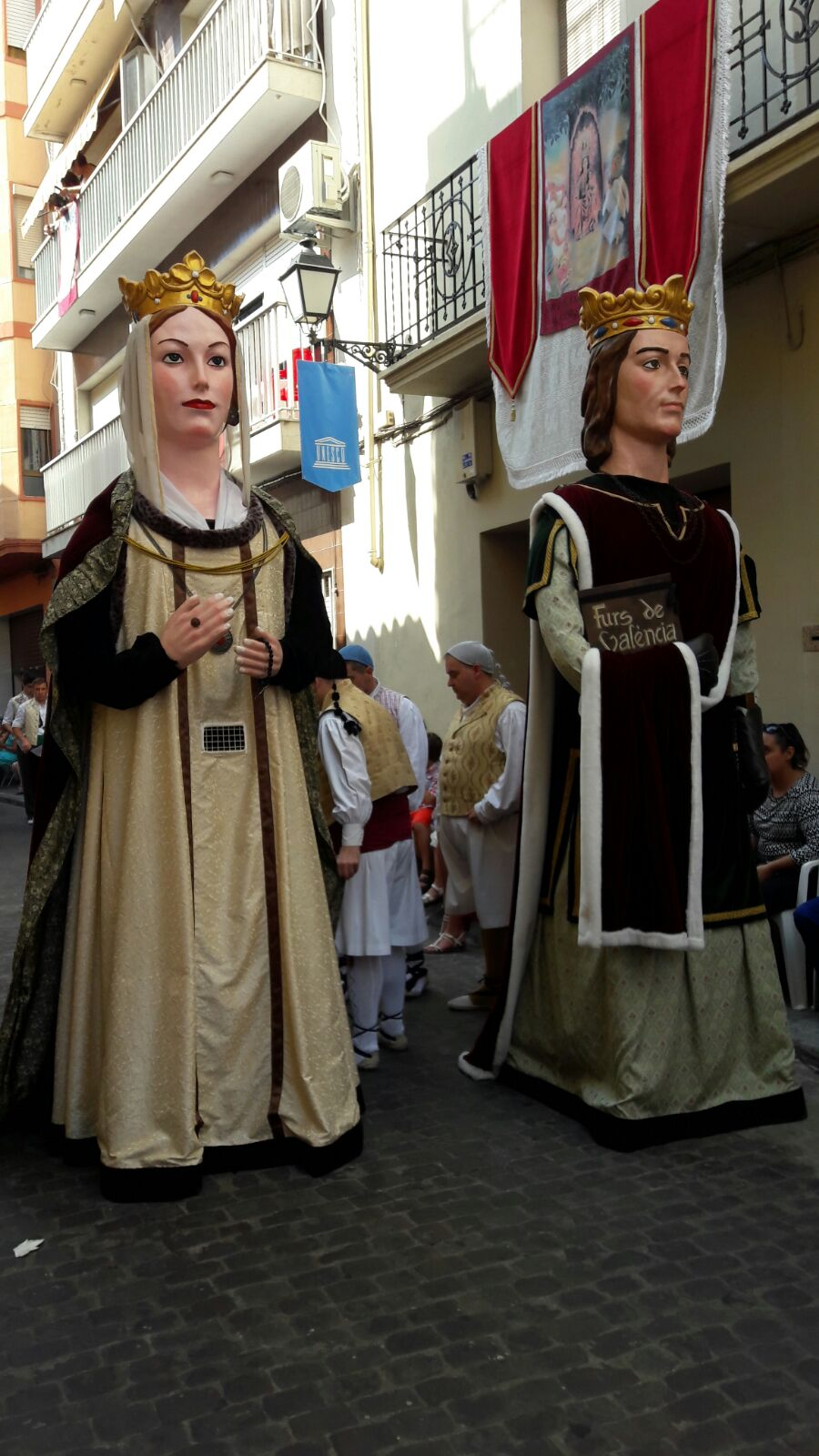 Mare de Déu de la Salut. La Mare de Déu de la Salut Festival is celebrated in September 8, in Alegemesi, Spain and commemorates the legendary discovery in 1247 of a statue depicting the Madonna and Child.